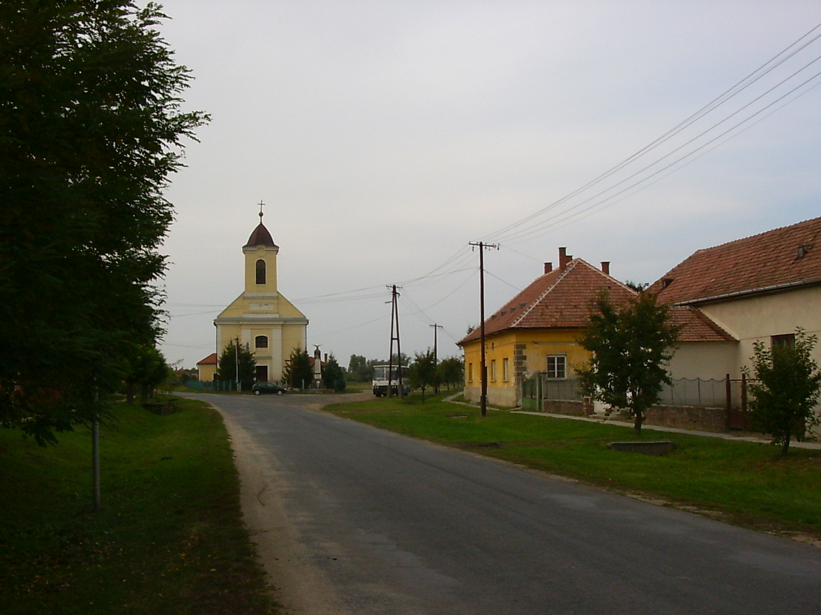 Répceszemere, Exaltation of the Holy Cross Church (roman catholic) This is a photo of a monument in Hungary, Identifier: 4683